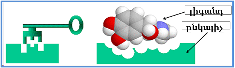 Լիգանդ ընկալիչ